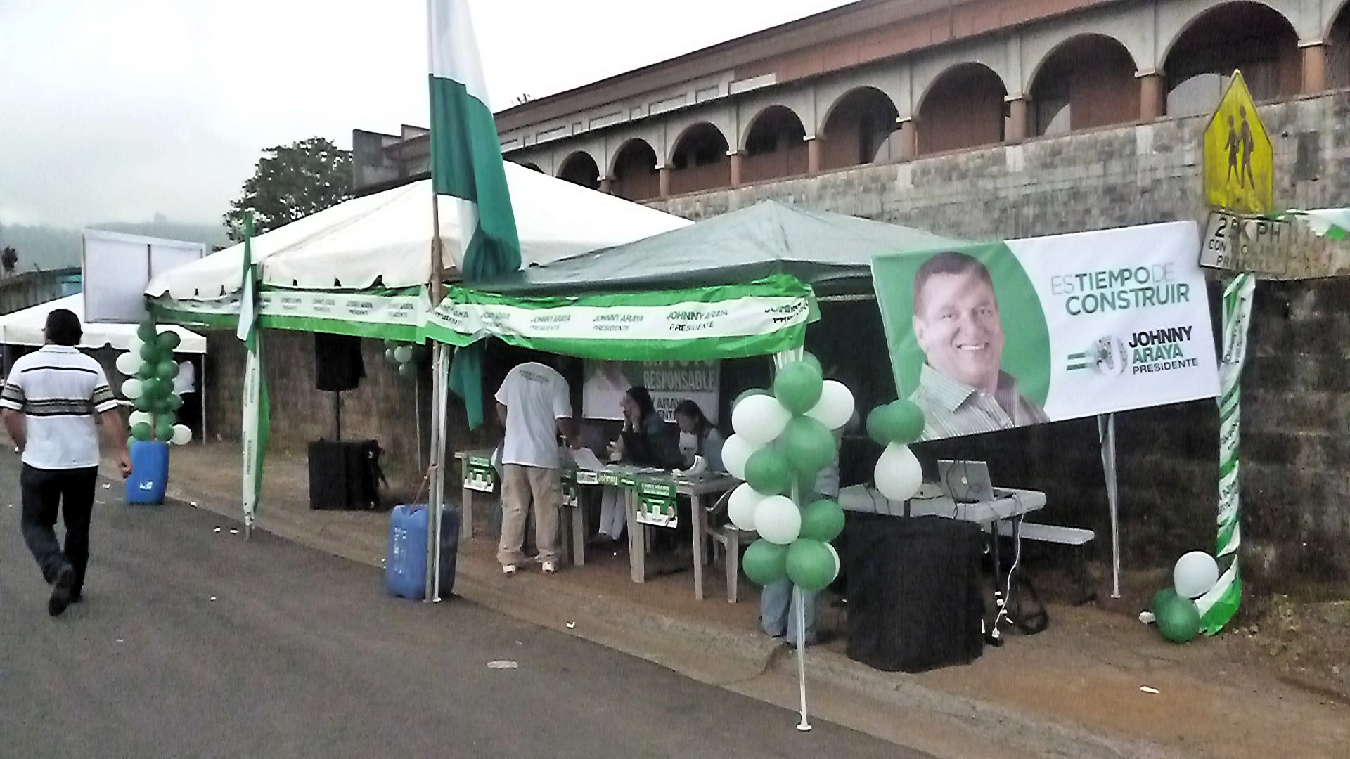 National Liberation Party spot at Quesada during Costa Rican general election, 2014.